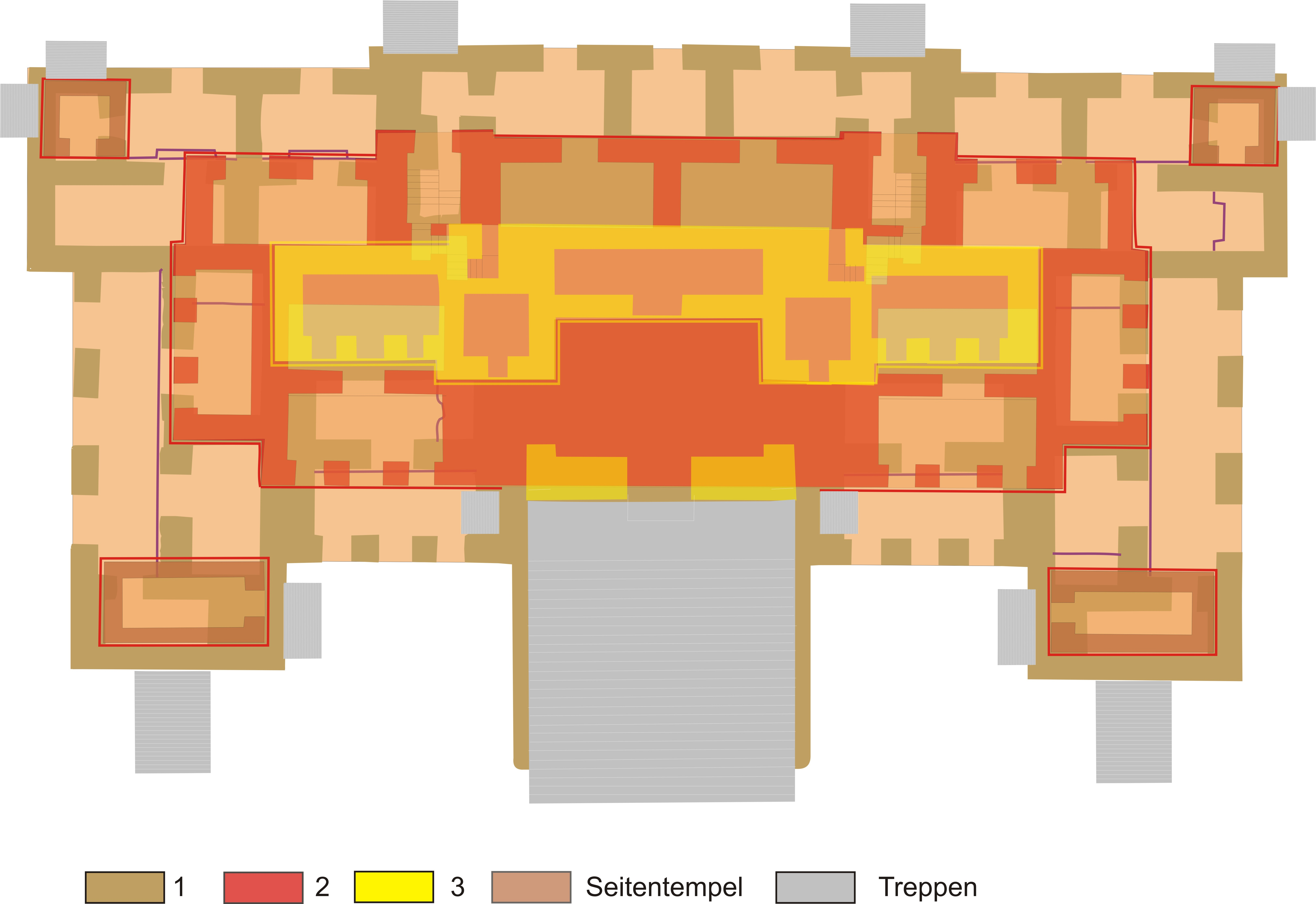 Sta. Rosa Xtampak, Campeche, Mexico: Plan of the tree storey palace.